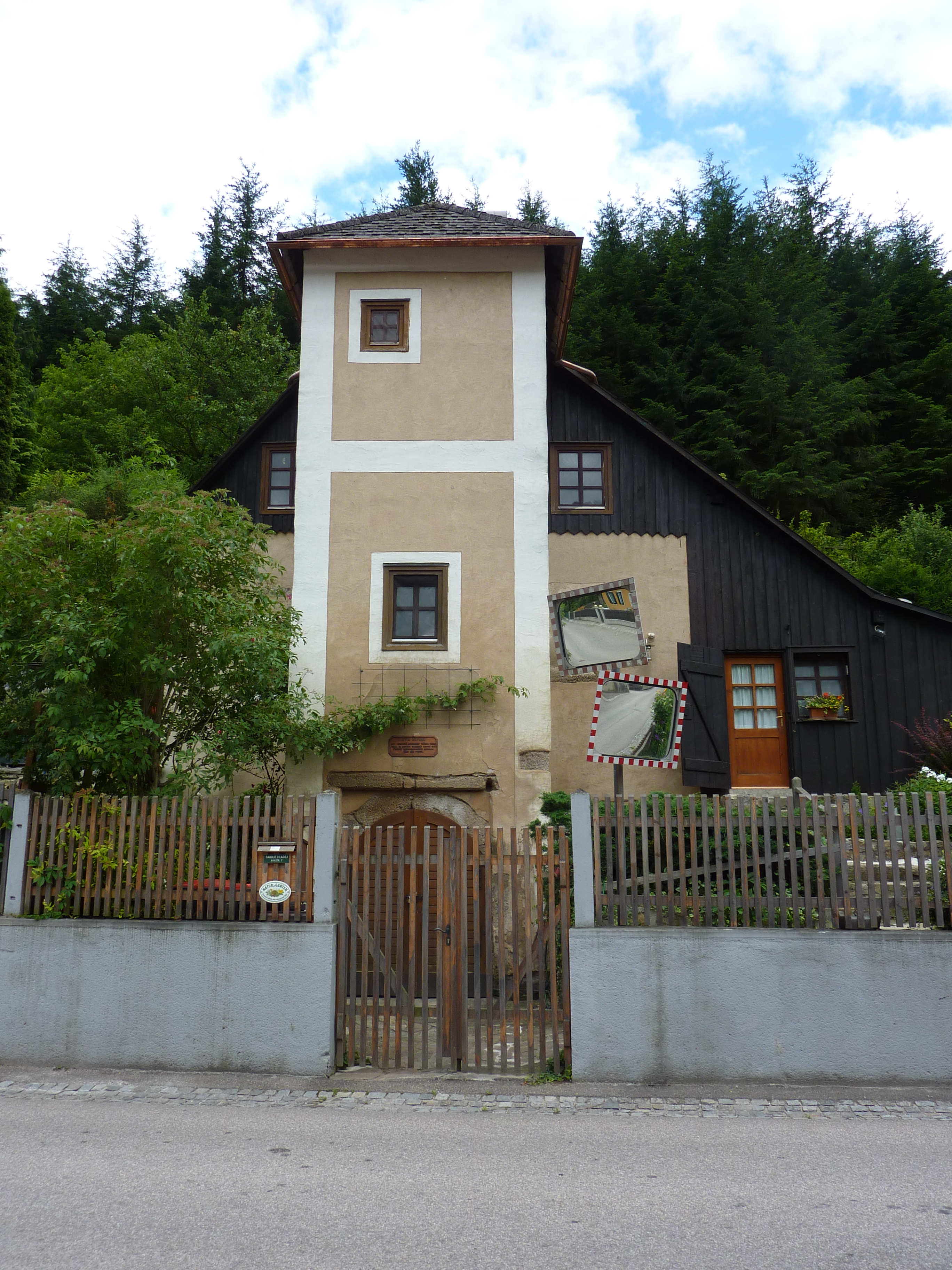 Ava-Turm in Kleinwien (Furth bei Göttweig) in Lower Austria